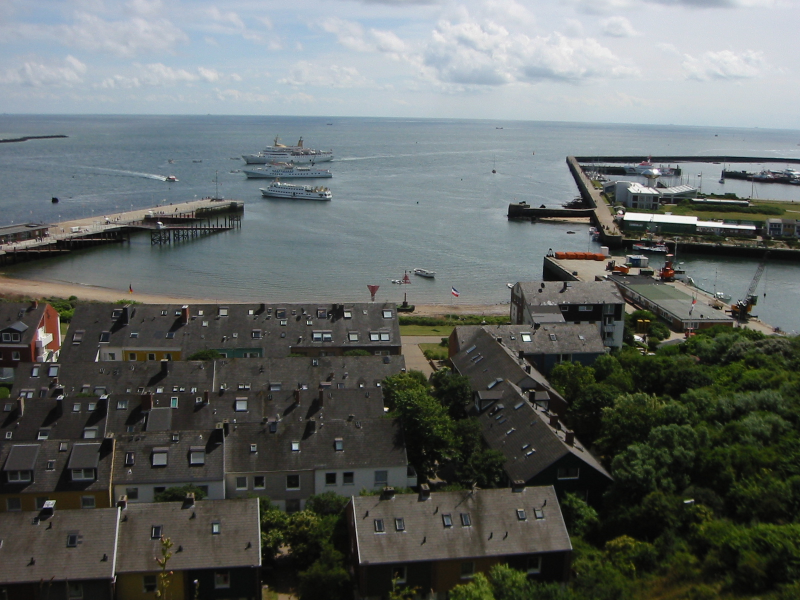 Anchorage, Heligoland